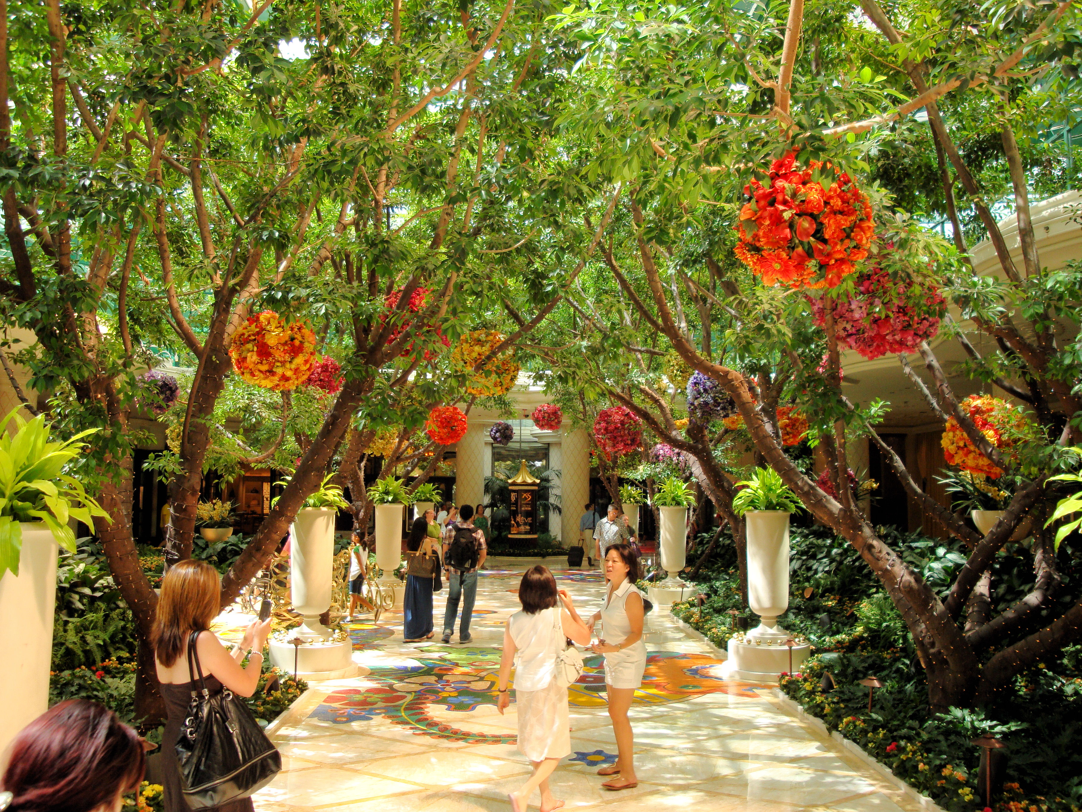 The Wynn Las Vegas Hotel and Casino.